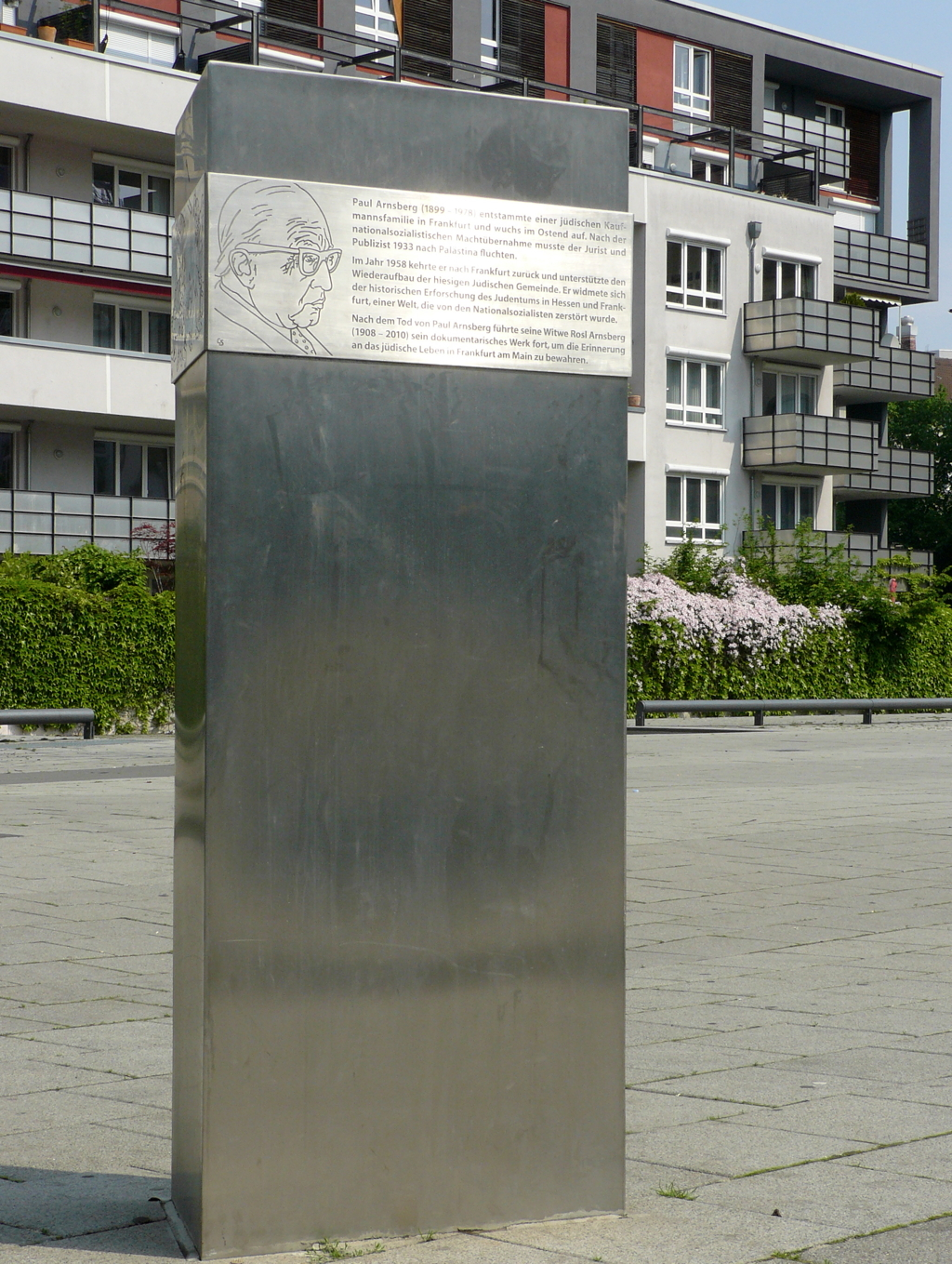 Paul Arnsberg Memorial at Paul Arnsberg Platz in the borough Ostend of Frankfurt am Main, Hesse, Germany.